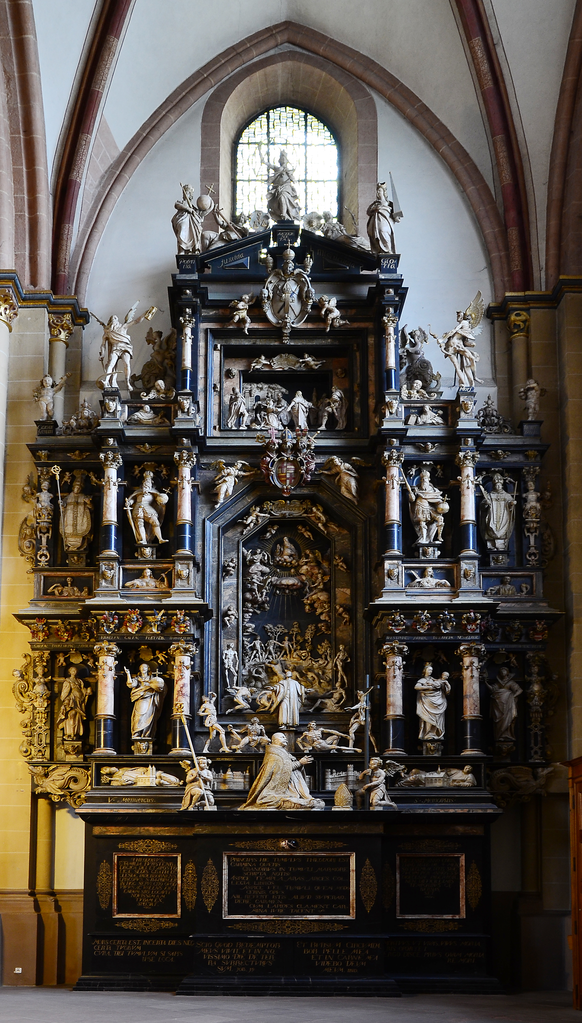 Paderborn Cathedral Paderborn, Tomb of the Prince Bishop Dietrich von Fürstenberg, created by Heinrich von Gröningen, North Rhine Westphalia, GermanyThis is a photograph of an architectural monument., no. 3